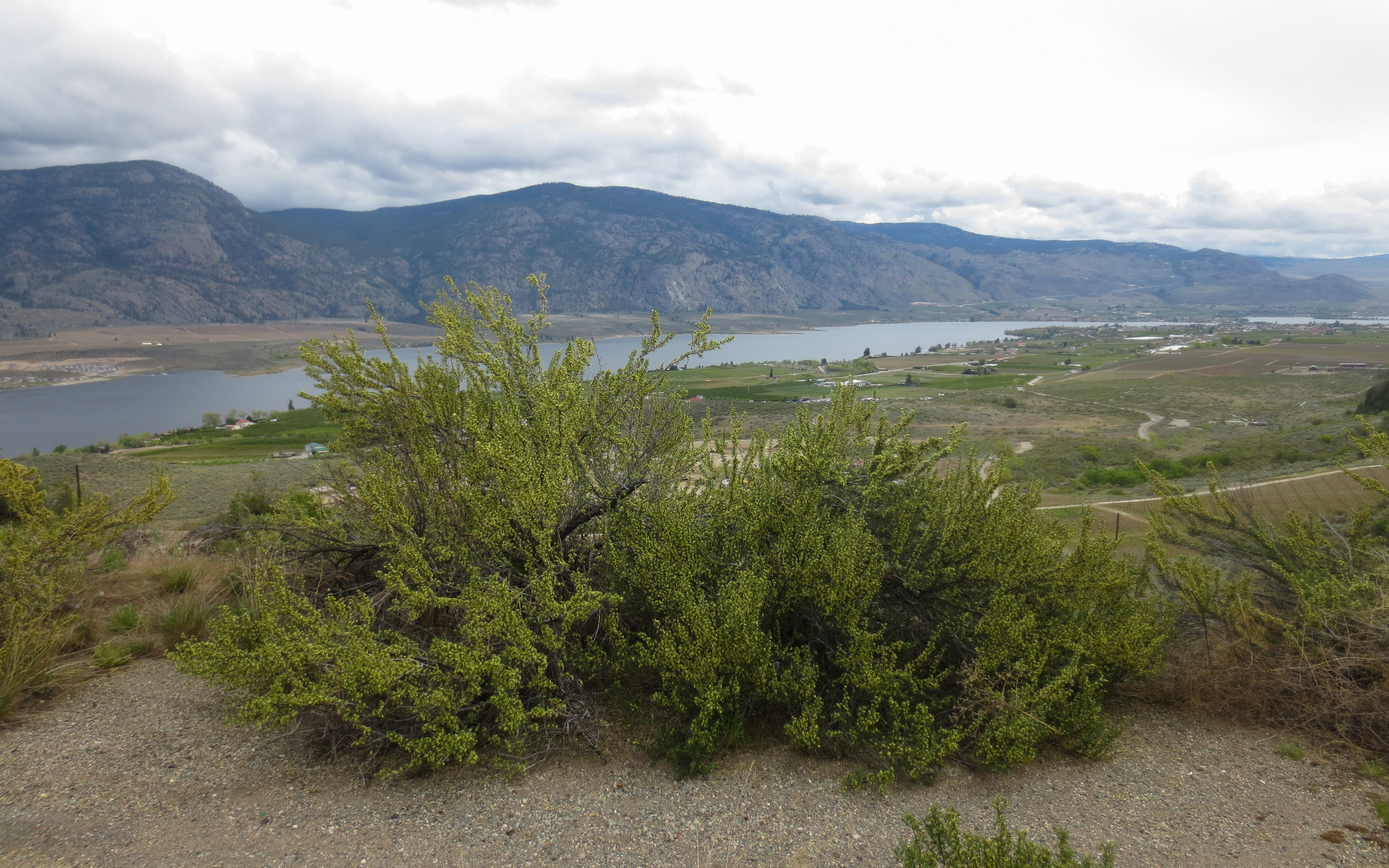 Looking Eastward over the Southern Okanagan Valley on a Spring Afternoon